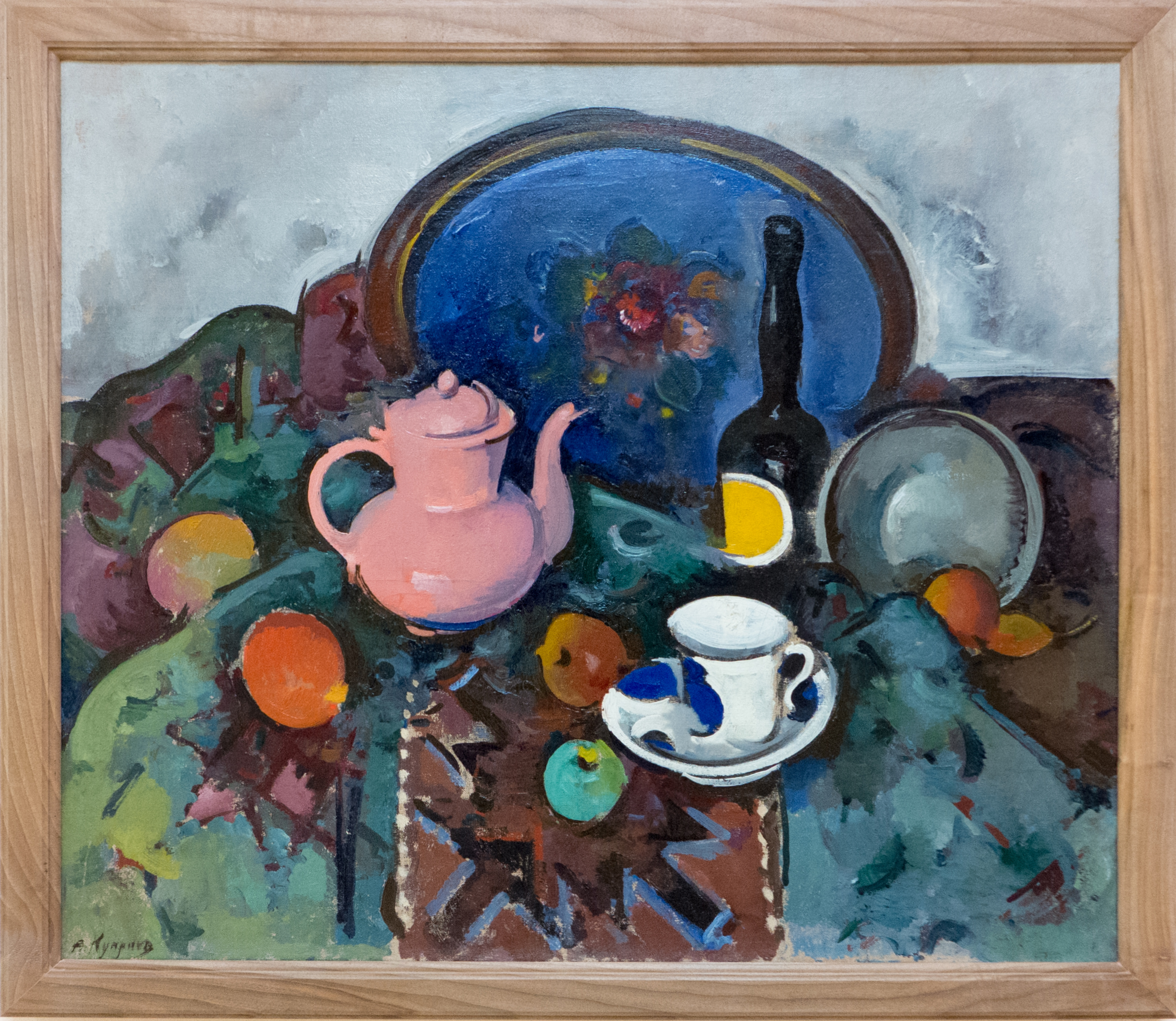 "Still-Life with a pink tea pot", 1921, by Alexander V. Kuprin (1880, 1960) Oil on canvas. I.V. Stavisky Museum of Art, Nukus, Uzbekistan This work was first published on the Uzbekistan and is now in the public domain because its copyright protection has expired by virtue of the Law of the Republic of Uzbekistan on Copyright and Related Rights, enacted 2006, amended 2007 (details). The work meets one of the following criteria: It is an anonymous work, pseudonymous or posthumous work and 50 years have passed since the date of its publication It is another kind of work, and 50 years have passed since the year of death of the author (or last-surviving author) It is one of "official documents (laws, resolutions, decisions, and etc.), as well as their formal translations; official symbols and marks (flags, emblems, orders, banknotes, and etc.); works of popular art" English | +/−